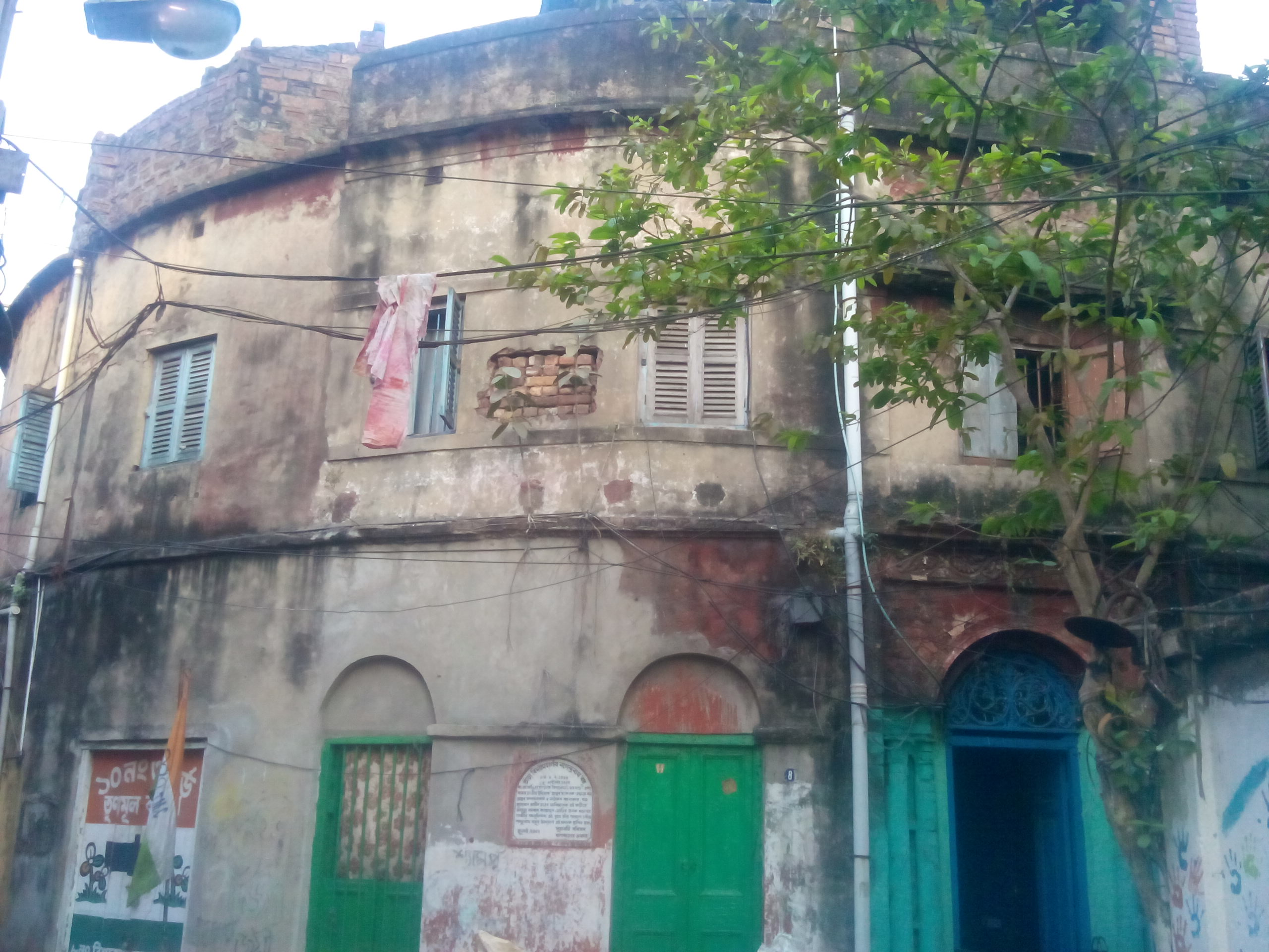 Nagendranath Basu home in bazbagar